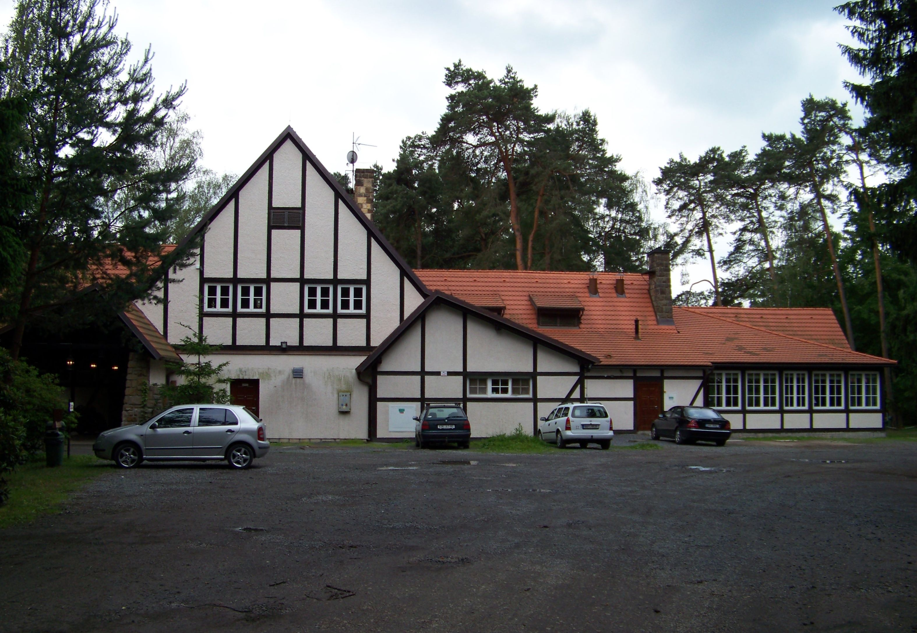 Prague-Klánovice, the Czech Republic. A golf club.